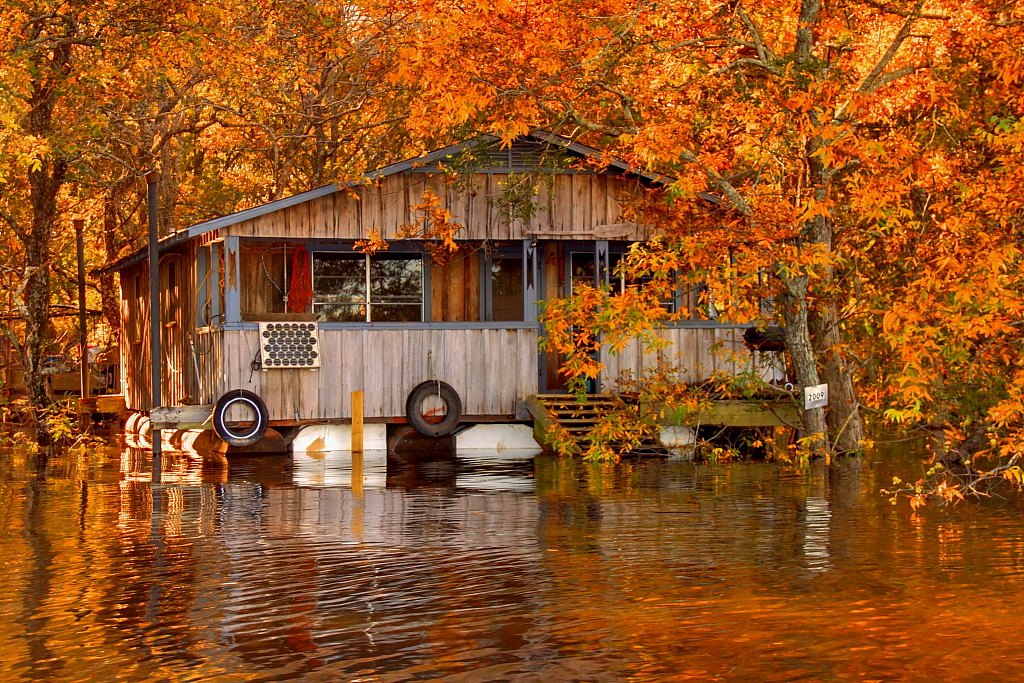 Same picture, processed as an exposure fusion Floating camp on the Ouachita River. There are no roads to this camp, only access is by water. Notice that the camp is floating on pontoons and Styrofoam, the pole on the sides guide the camp up and down as the water rises and falls. View on Black BlackMagic